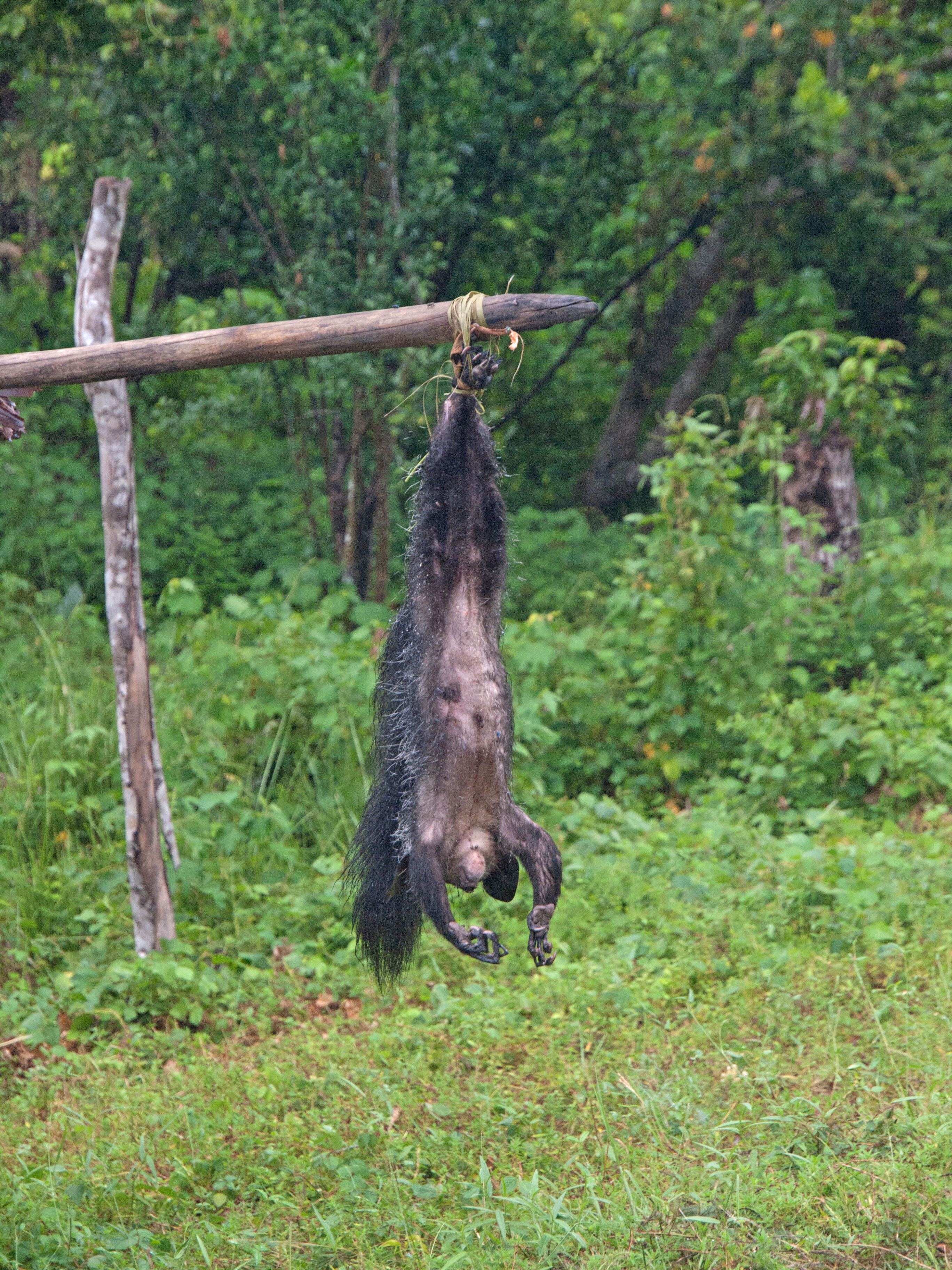 A dead aye-aye (Daubentonia madagascariensis), killed and hung up by Malagasy in hopes that the evil spirit will be carried away by travelers.